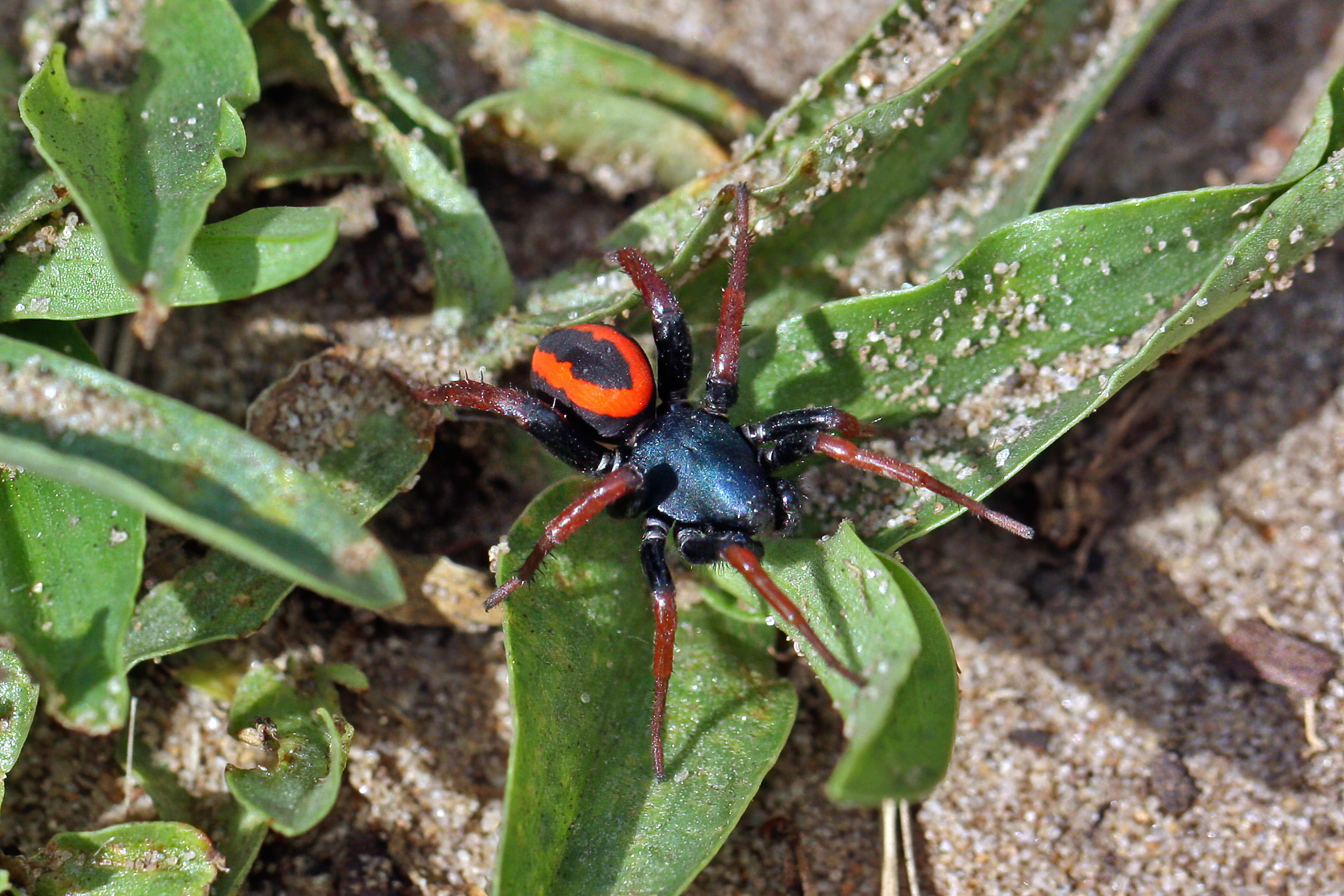 Decorated burrowing spider (Psammorygma aculeatum), Kwa-Zulu Natal, South Africa. Also known as the red sandtunneler.